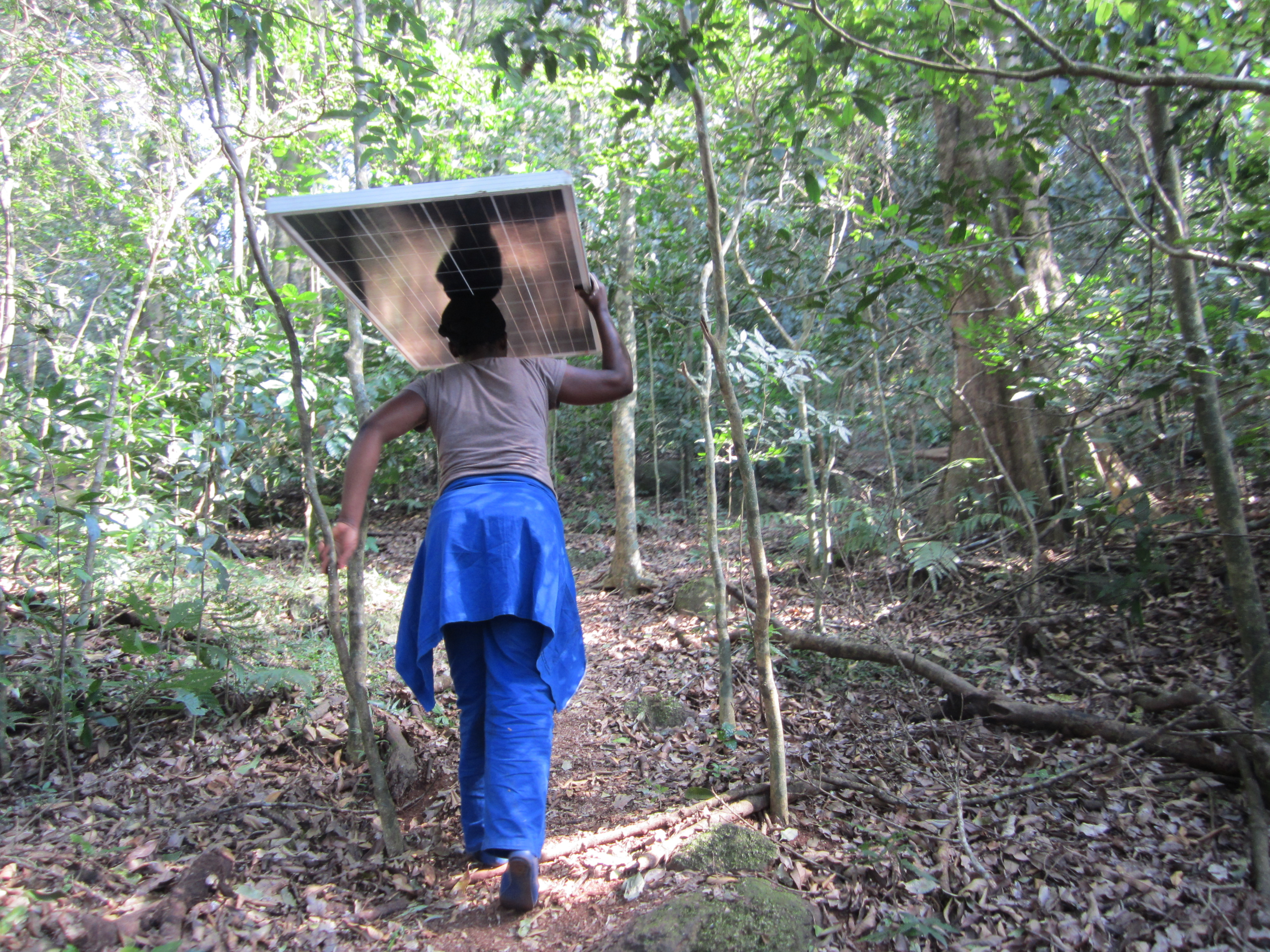 This is an image of "African people at work" from Malawi